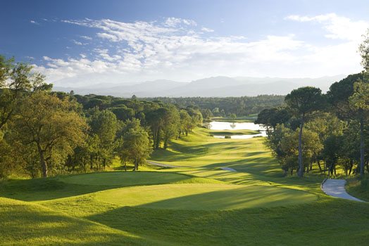 Panorámica del campo de golf de la PGA de Catalunya, en Caldes